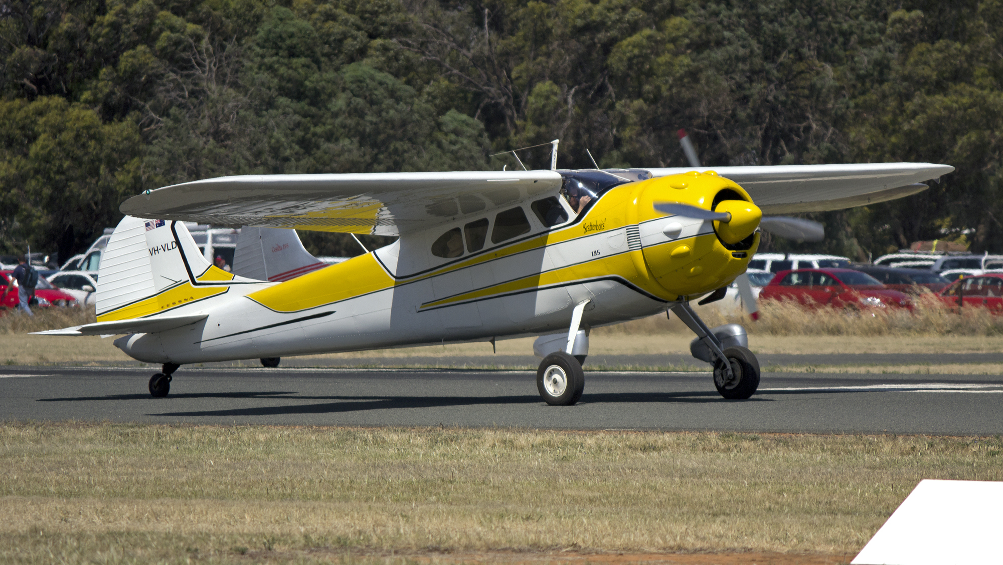 1953 Cessna 195B (VH-VLD) on Runway 36 at Temora Airport for Temora Aviation Museum's inaugural Warbirds Downunder Airshow.